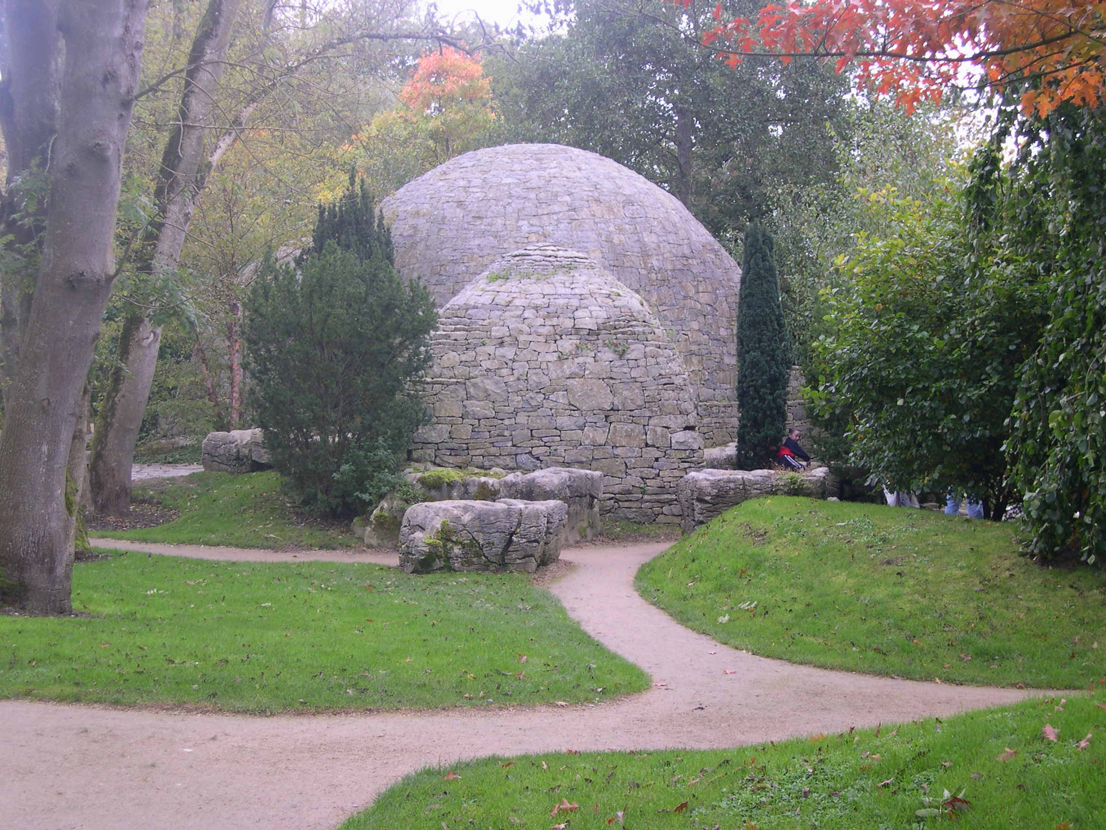 This is an image of St Fiachra's Garden in Kildare town Credit: A Peter Clarke image